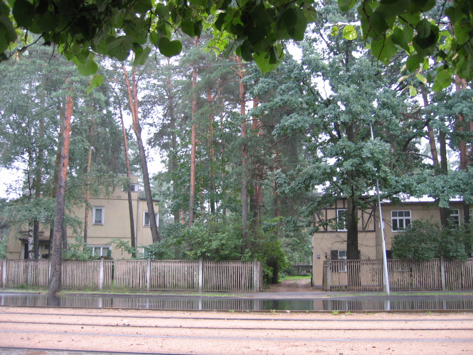 Mezha Prospects in Riga's Neighborhood of Mezhaparks.